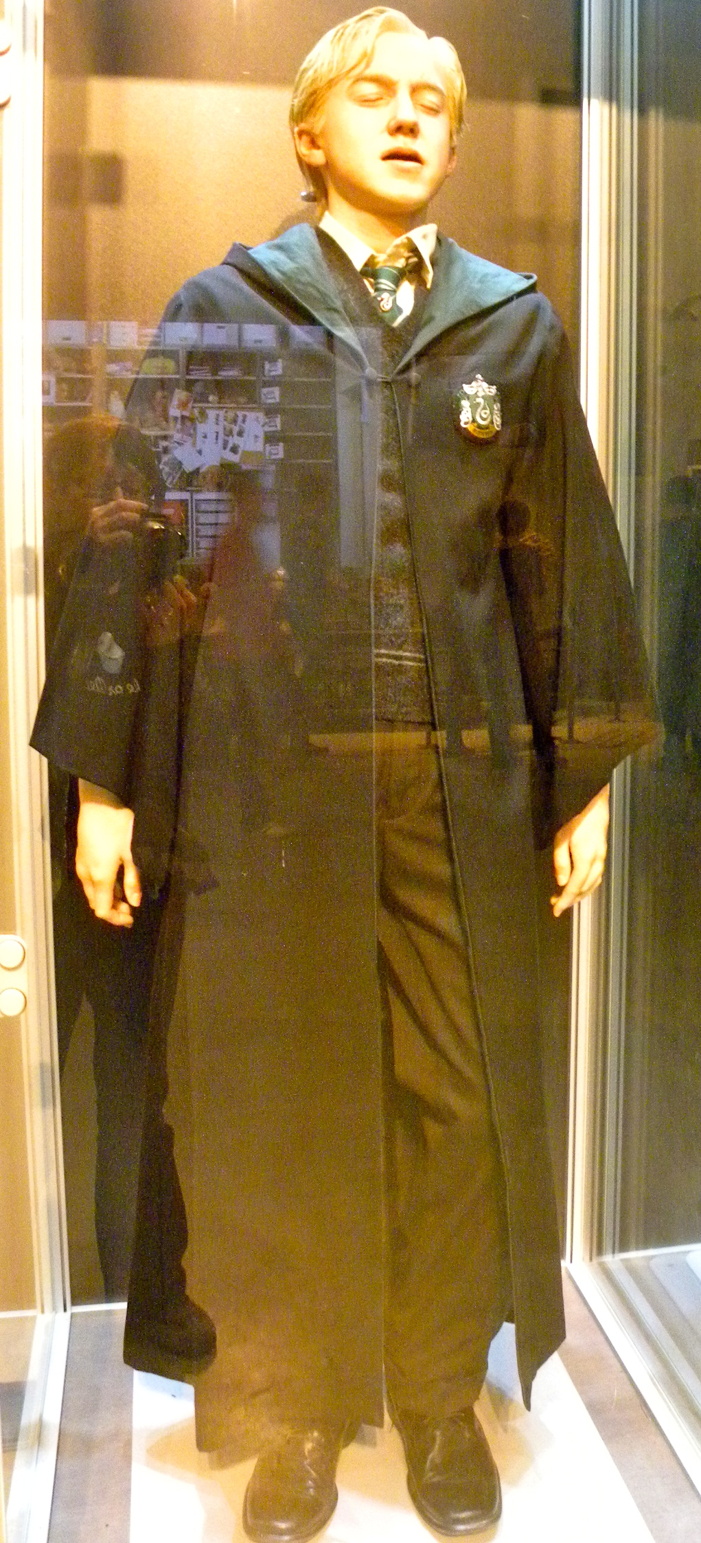 Harry Potter studio tour: Life size Draco Malfoy dummy